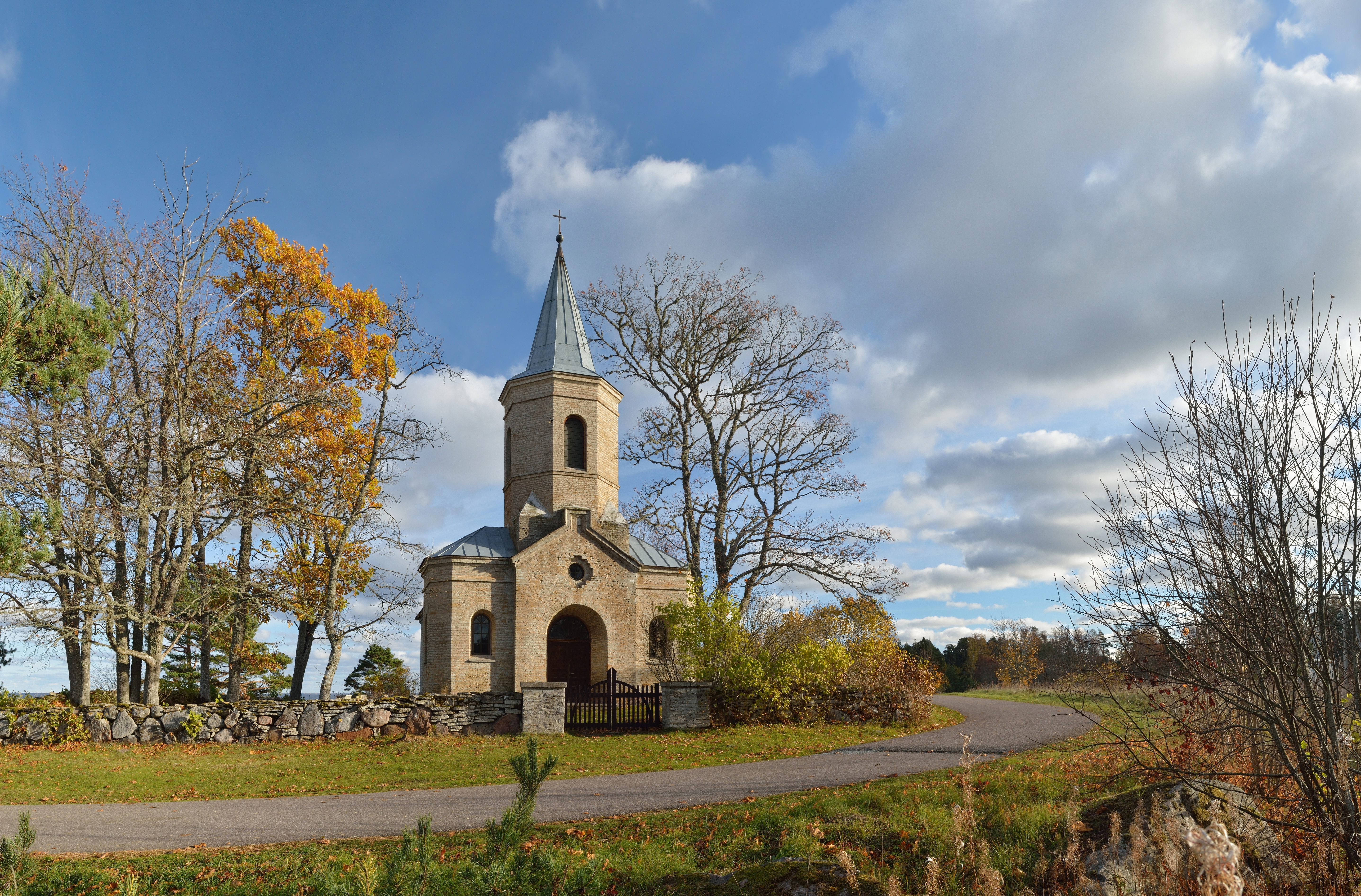 Vainupea chapel, built in 1888–1893.